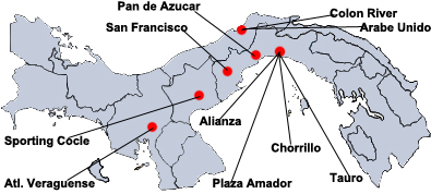 Equipos de la Anaprof 2004